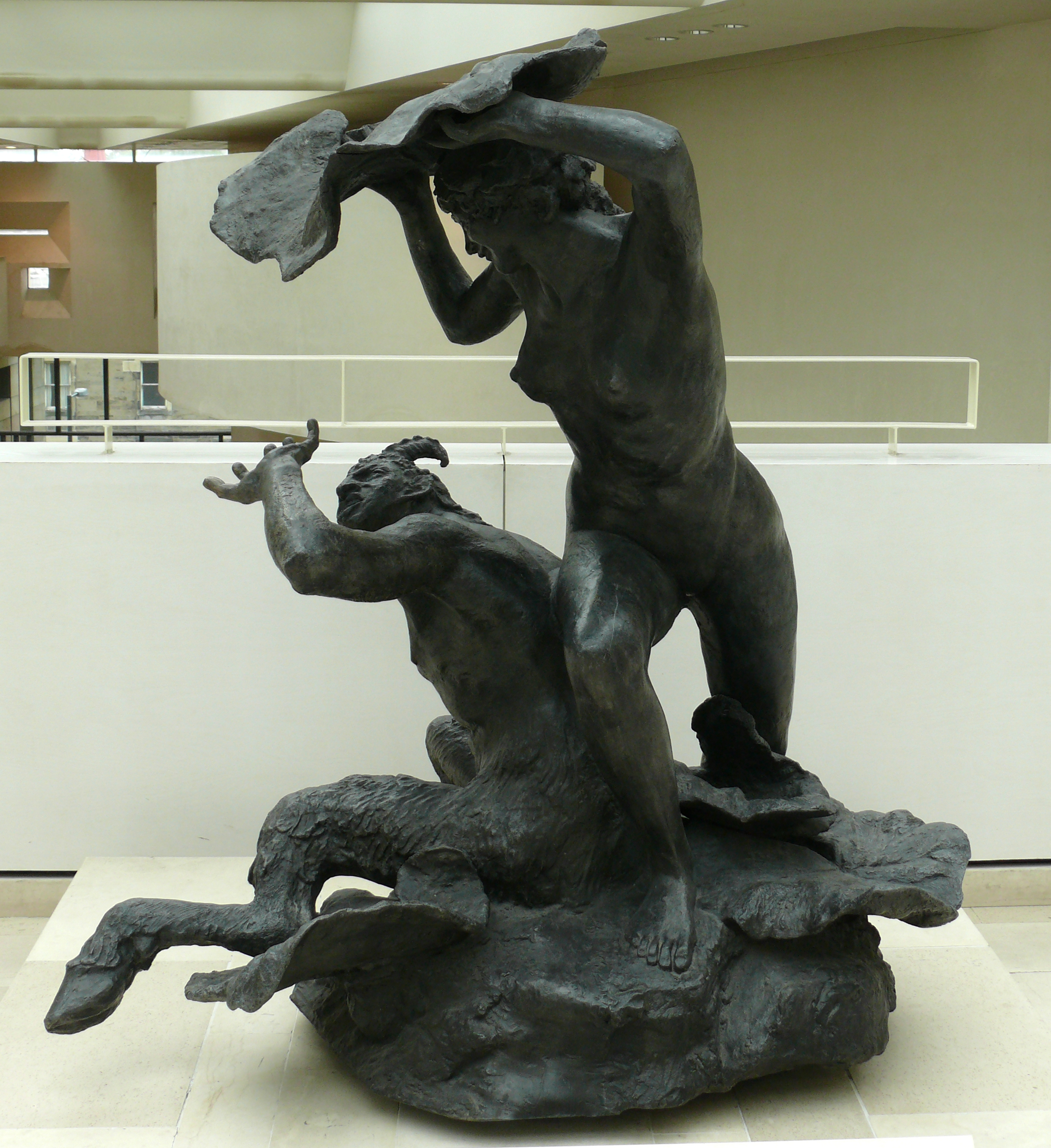 Nymph and Faun by Charles Hodge Mackie (1862-1920), cast in lead. It was originally the centrepiece of a garden pond in Murrayfield, Edinburgh. Now in the National Museum of Scotland, Edinburgh.